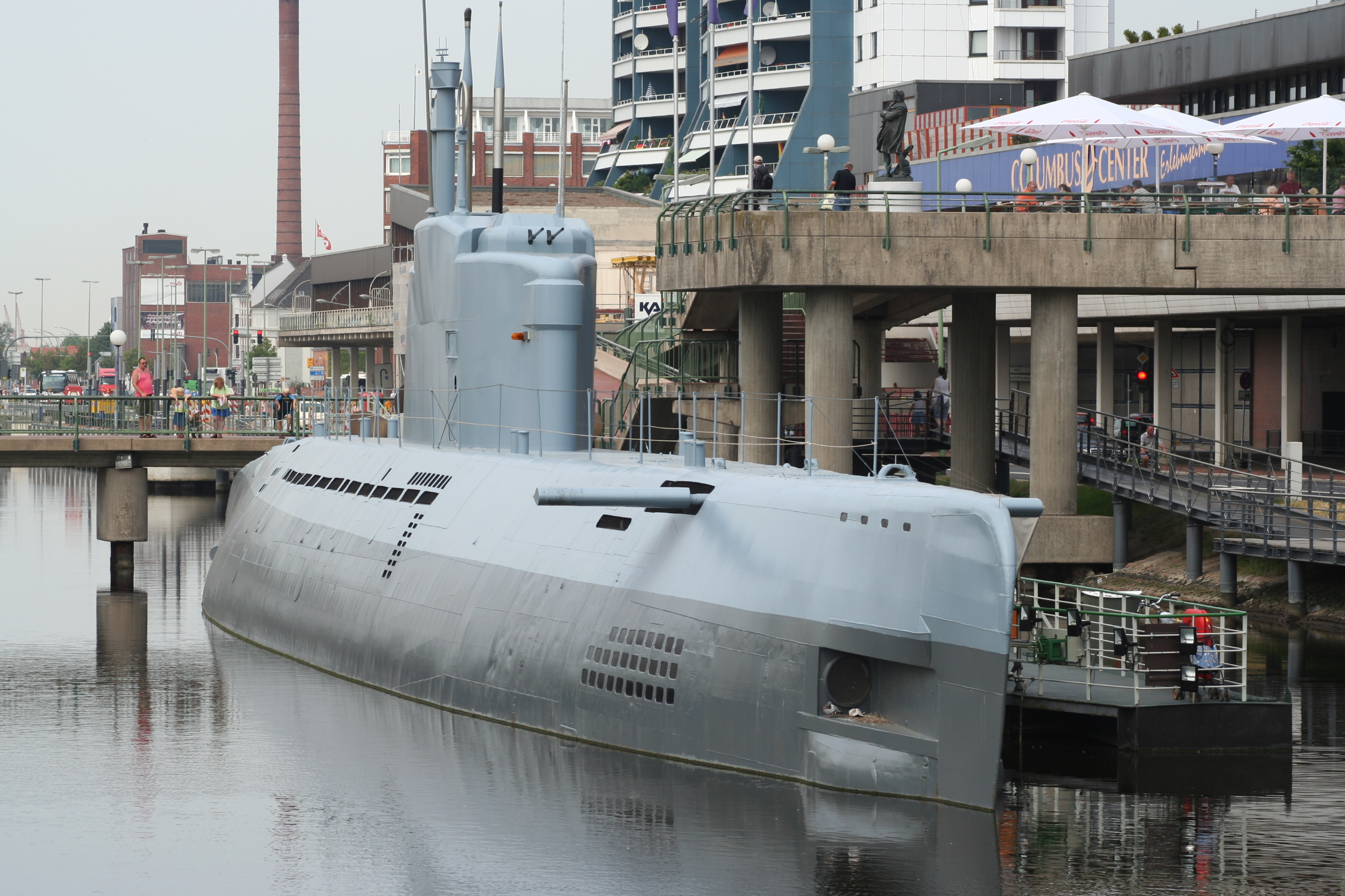 Submarine WILHELM BAUER ex U 2540 Typ XXI Bremerhaven 27.07.06